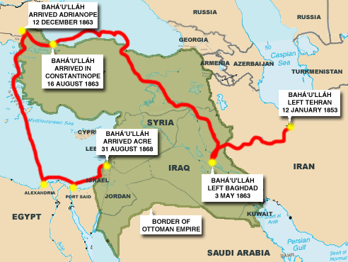 Map of Baha'u'llah's banishment from Iran to ultimately Acre in the Ottoman Empire.